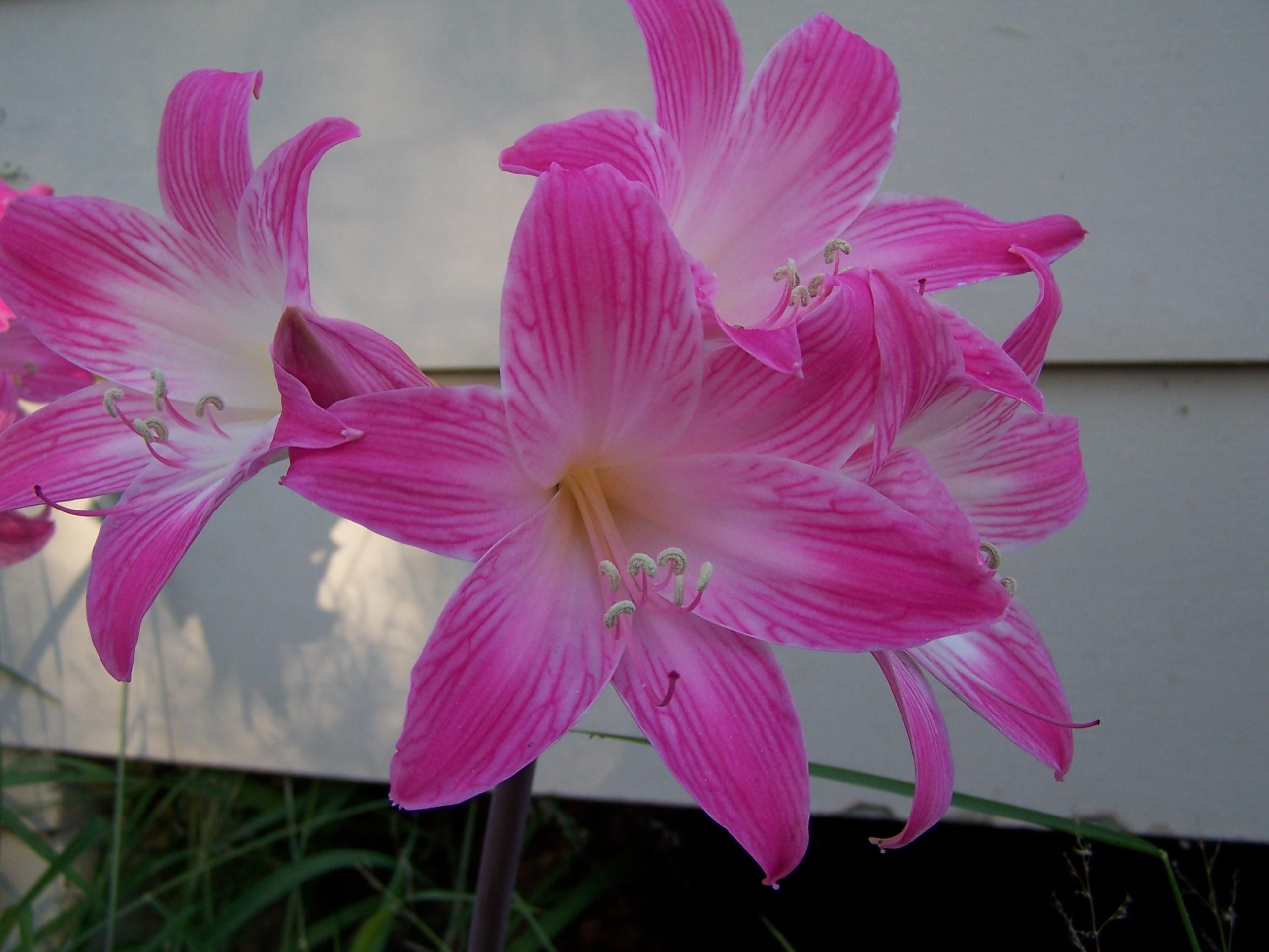 Image title: Naked ladies pink flower Image from Public domain images website